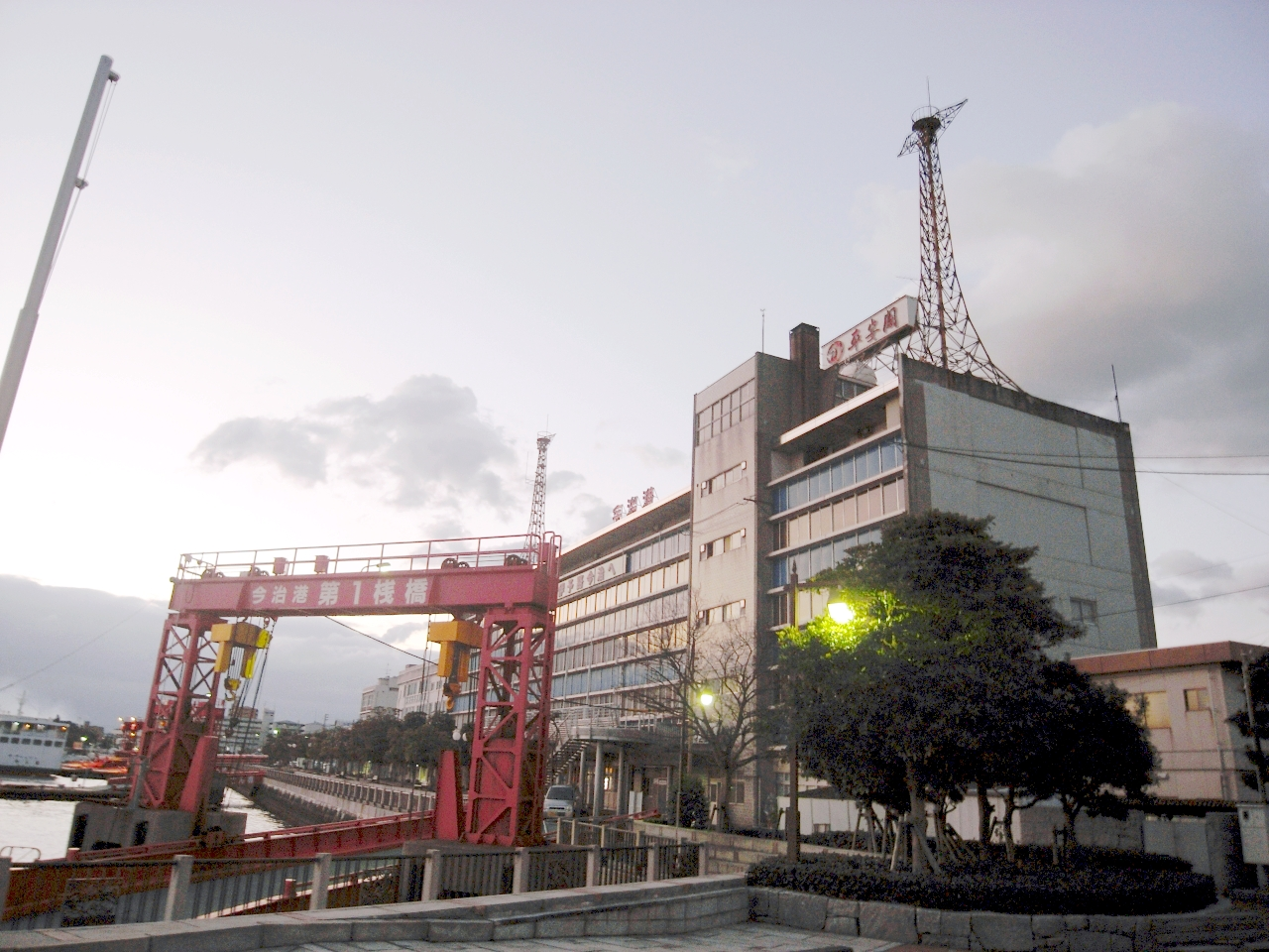 Imabari Kowan Bldg in Imabari, Ehime pref., Japan.